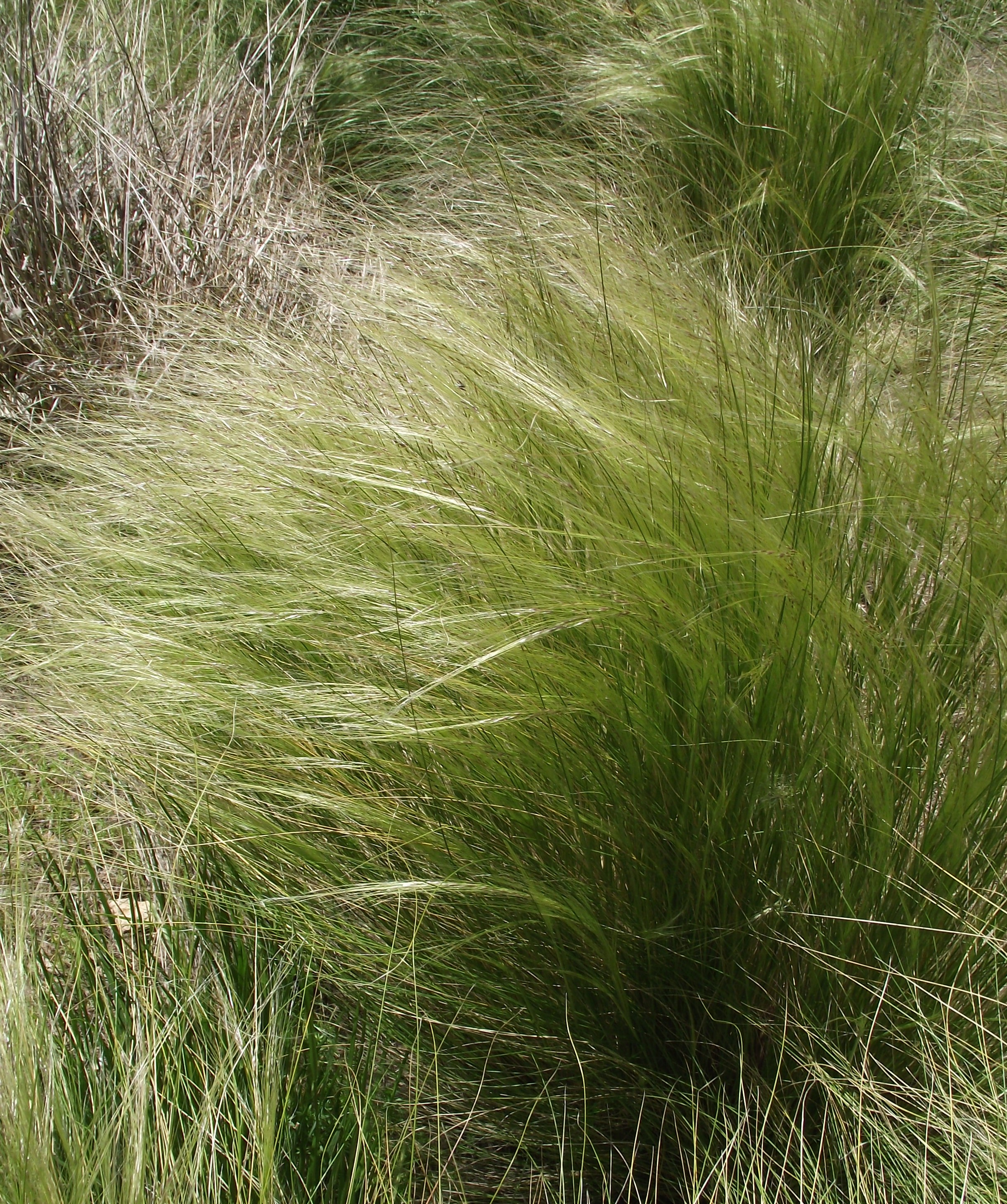 Stipa gyneroides in the UC Botanical Garden, Berkeley, California, USA. Identified by sign.